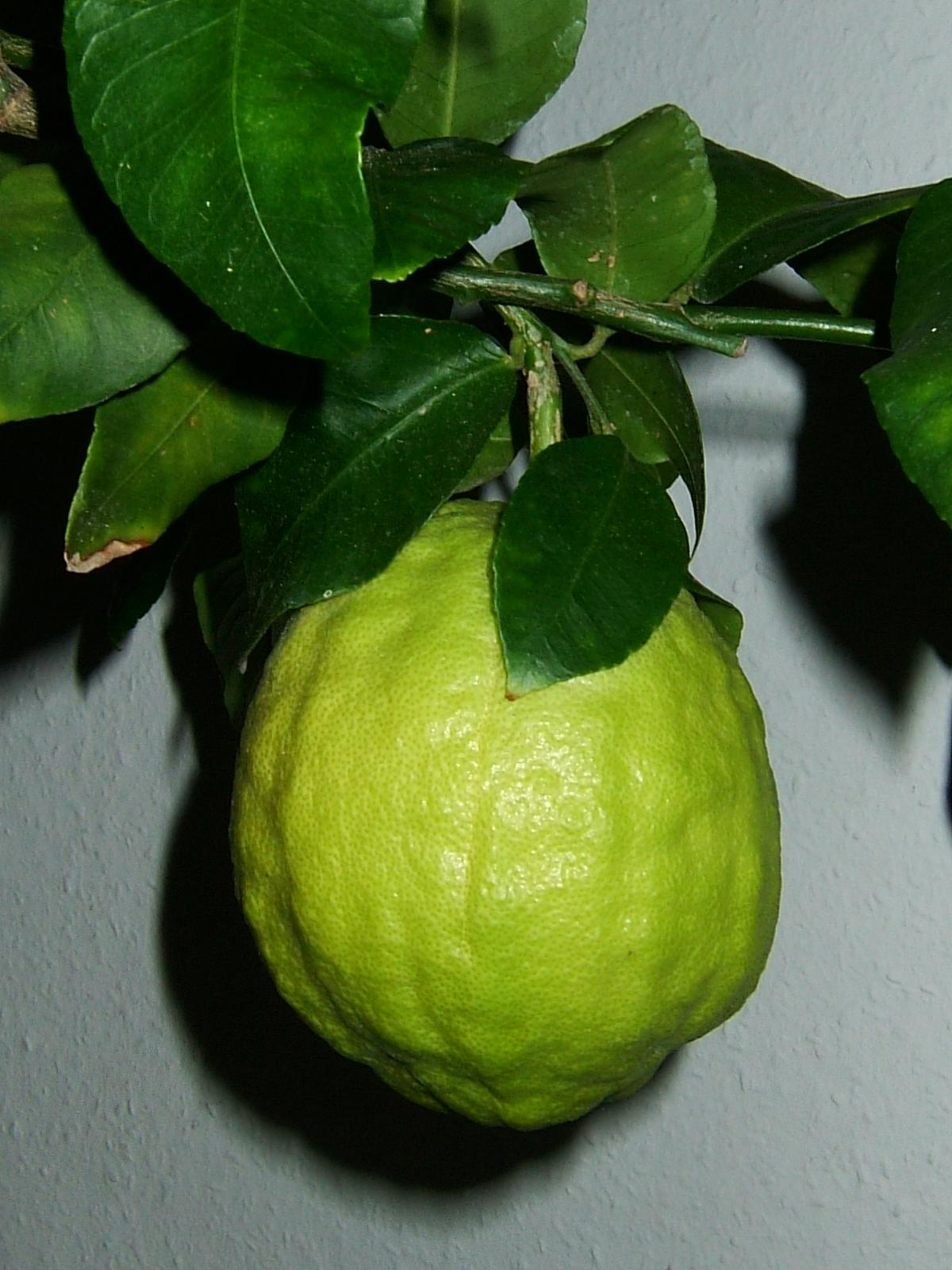 Fruit of the Citron (Citrus medicus). Originally uploaded to German wikipedia by Benutzer:K reger